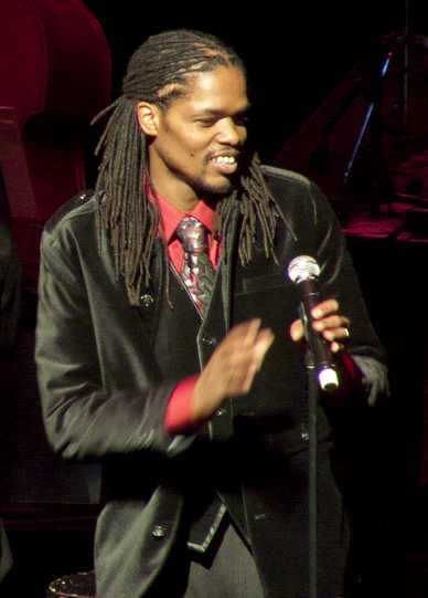 A performance by Landau Eugene Murphy Jr. at the Clay Center in Charleston,Wv